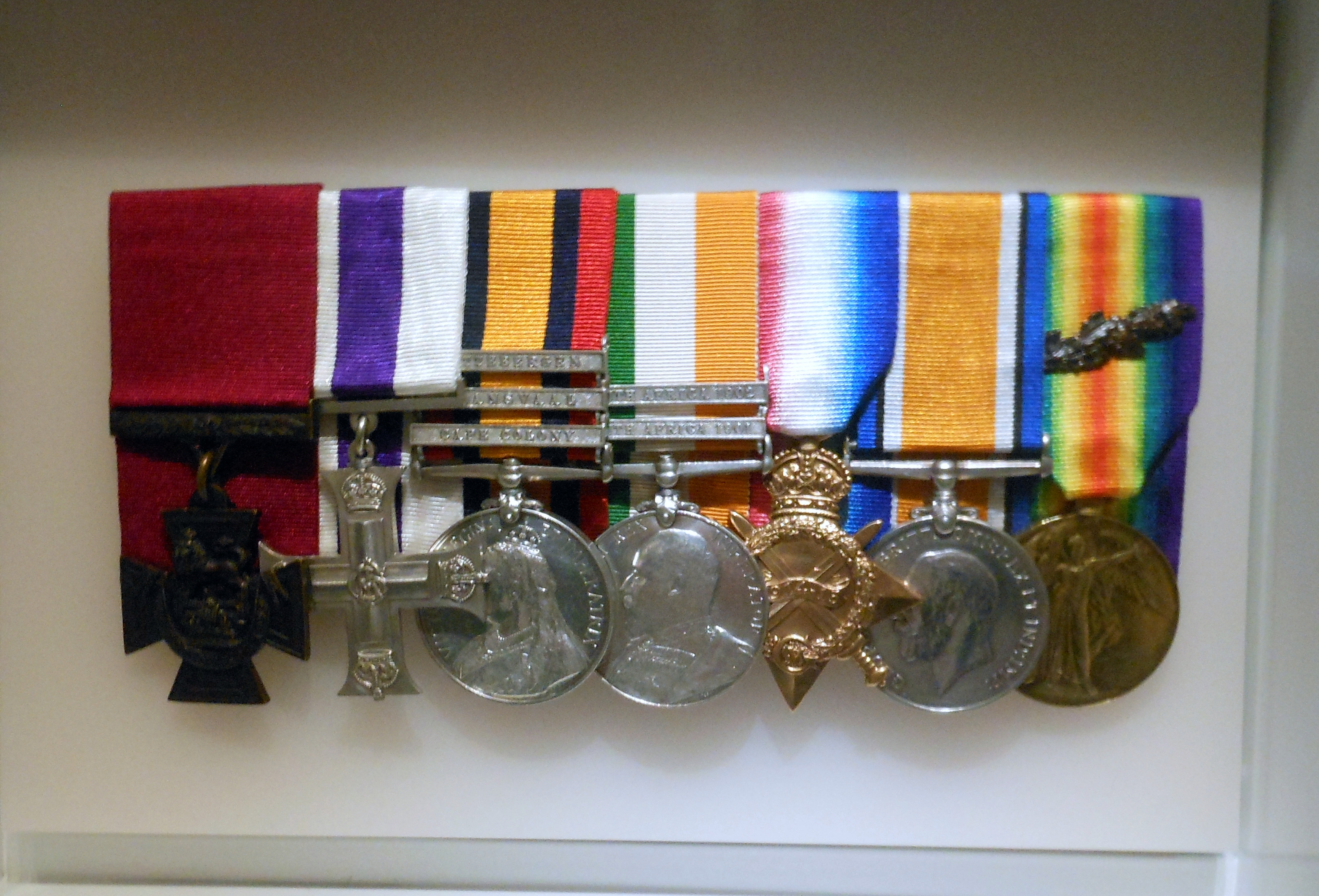 The decorations and medals awarded to Alfred Shout on display at the Australian War Memorial, Canberra.